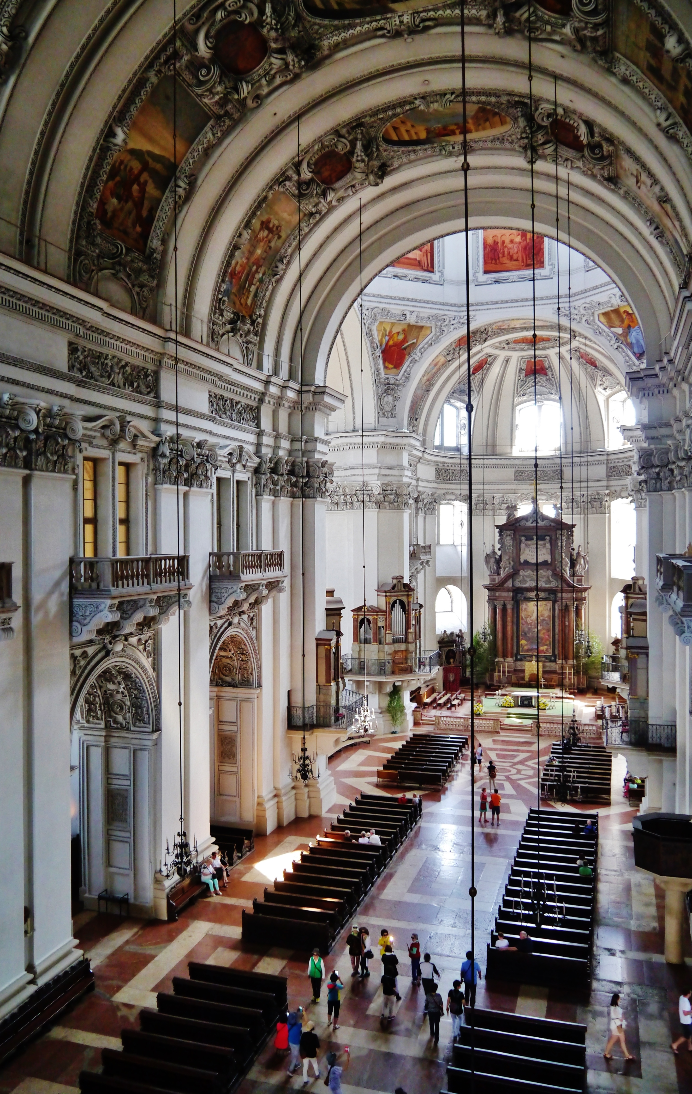 Nave of the Cathedral Sts. Virgil & Rupert, Salzburg, Salzburg, Austria